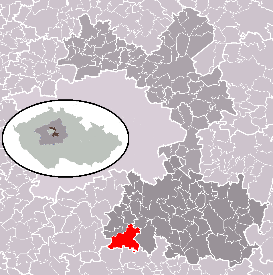 Location of Kamenice municipality within Prague-East District and administrative area of Říčany as a Municipality with Extended Competence.